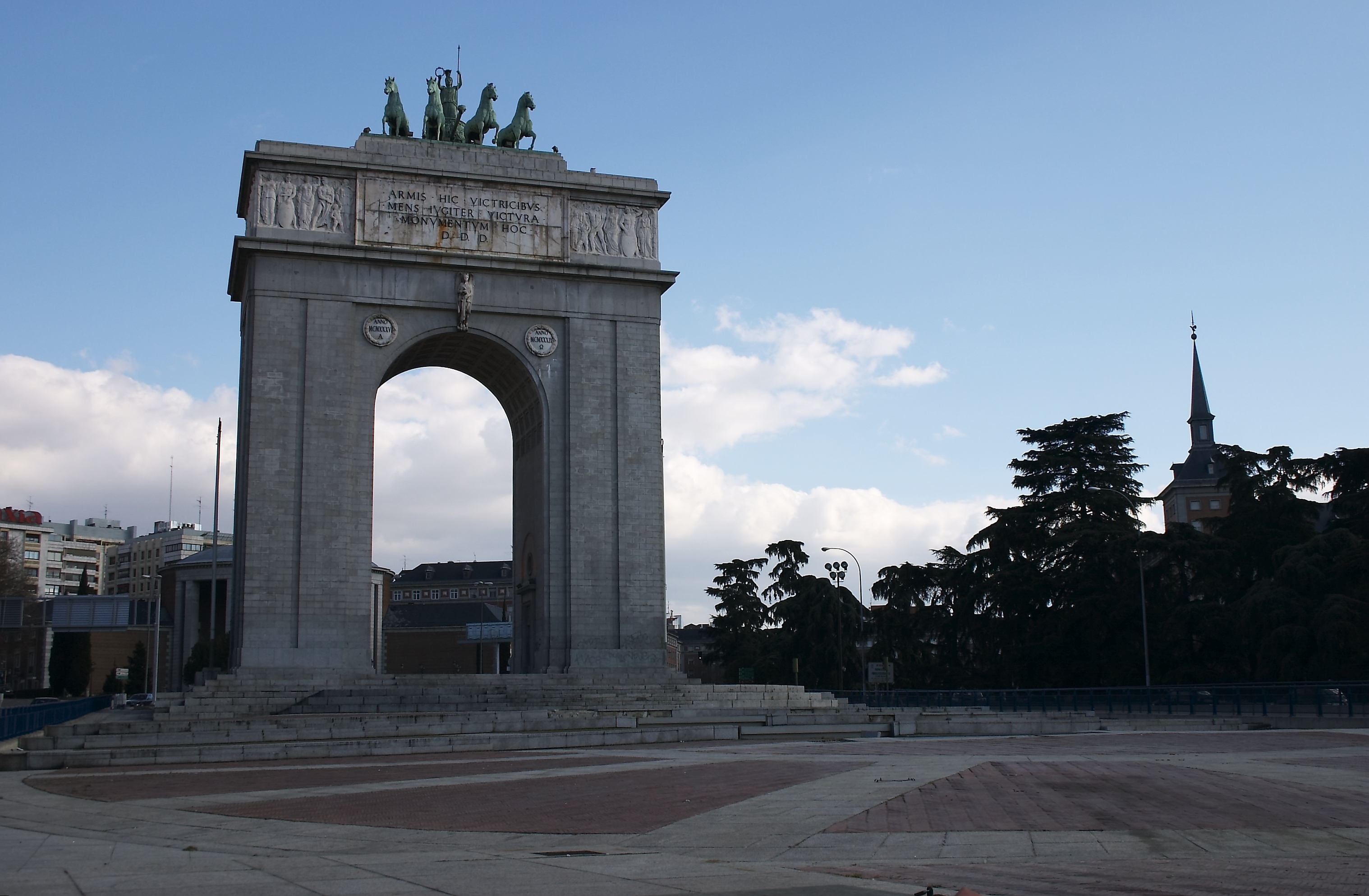 Arco de la Victoria, Madrid, Spain